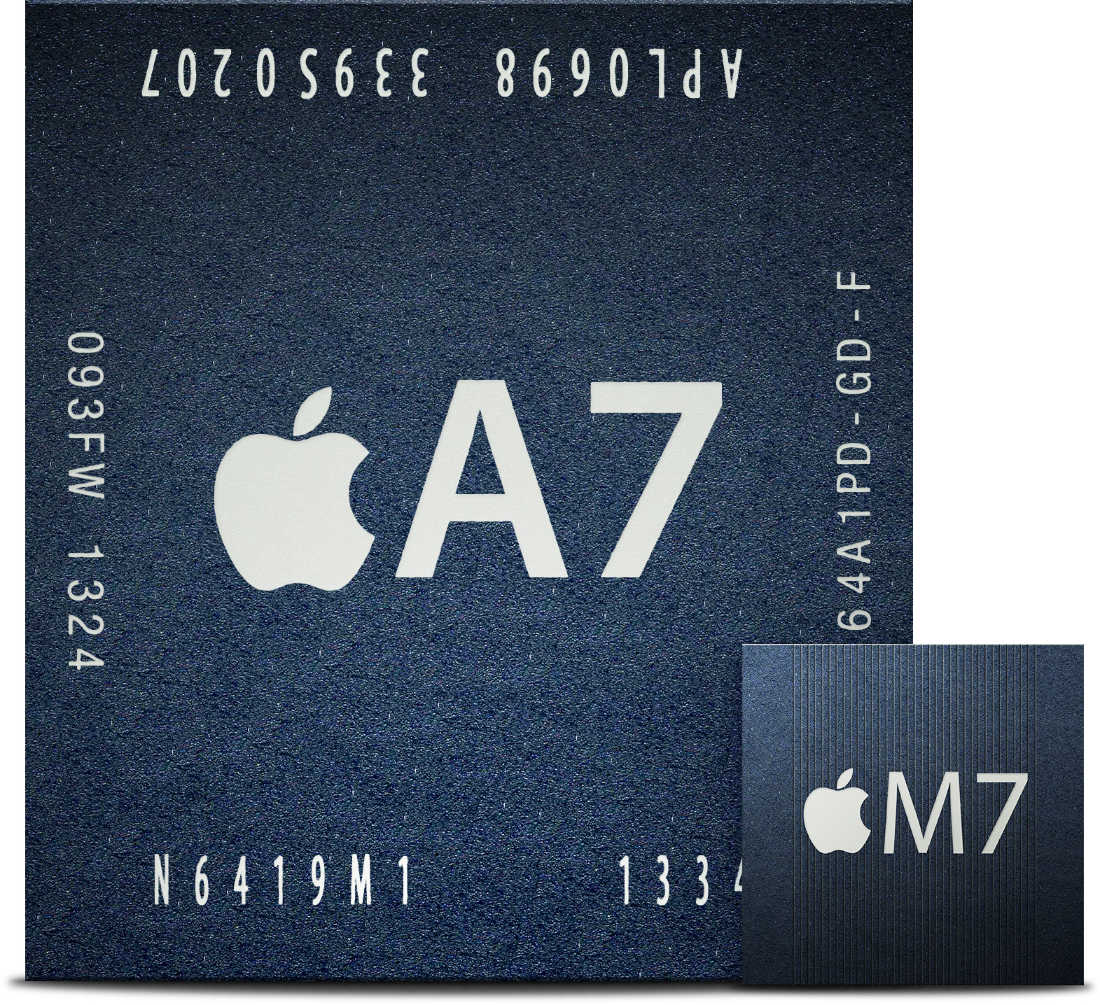 Size comparison between Apple's A7 processor and its M7 motion co-processor. Size differences are calculated from Apples launch video of the iPhone 5s.